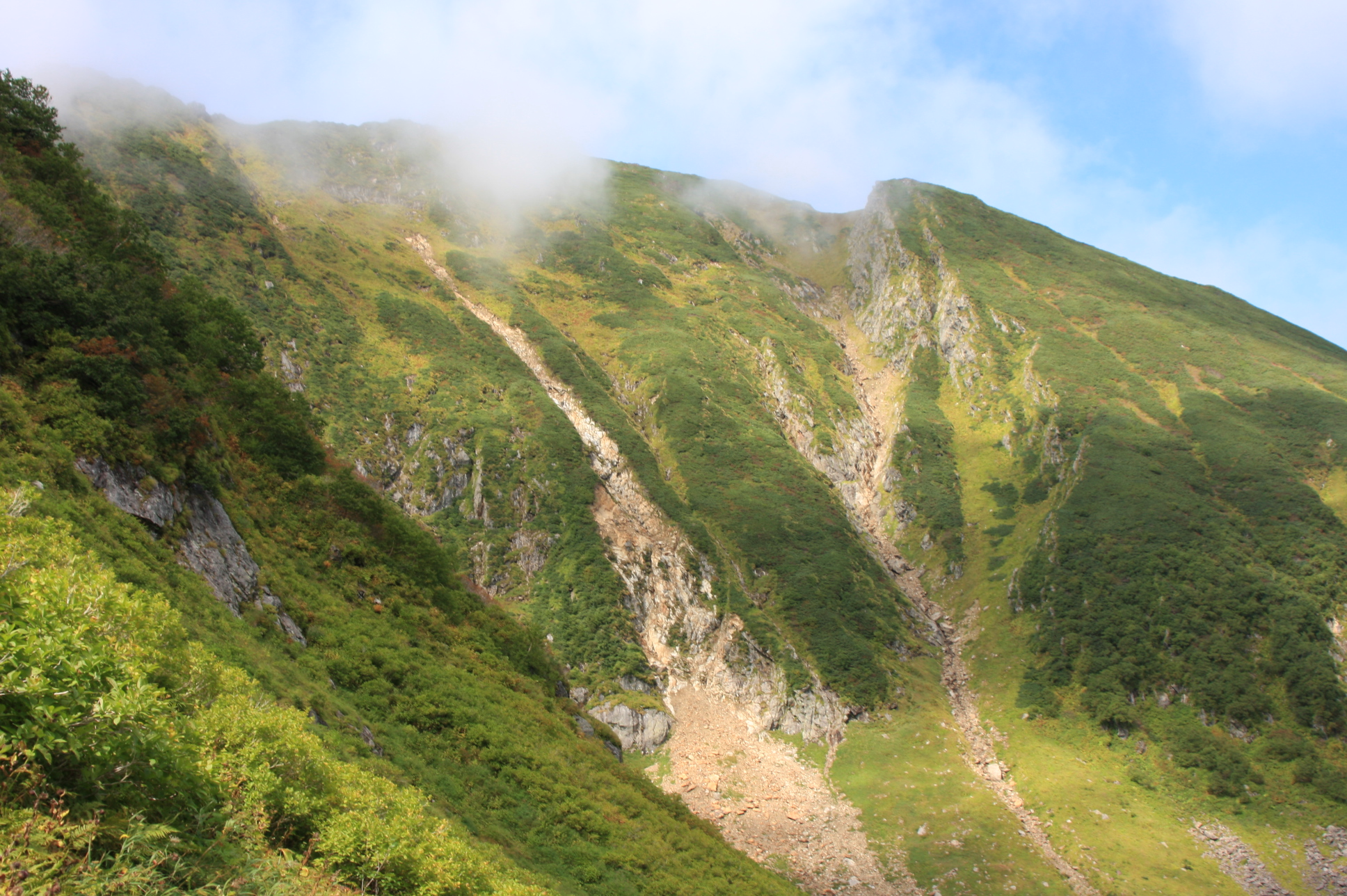 Mount Kamuiekuuchikaushi (Kamuiekuuchikaushisan) as seen from Hachinosawa Cirque